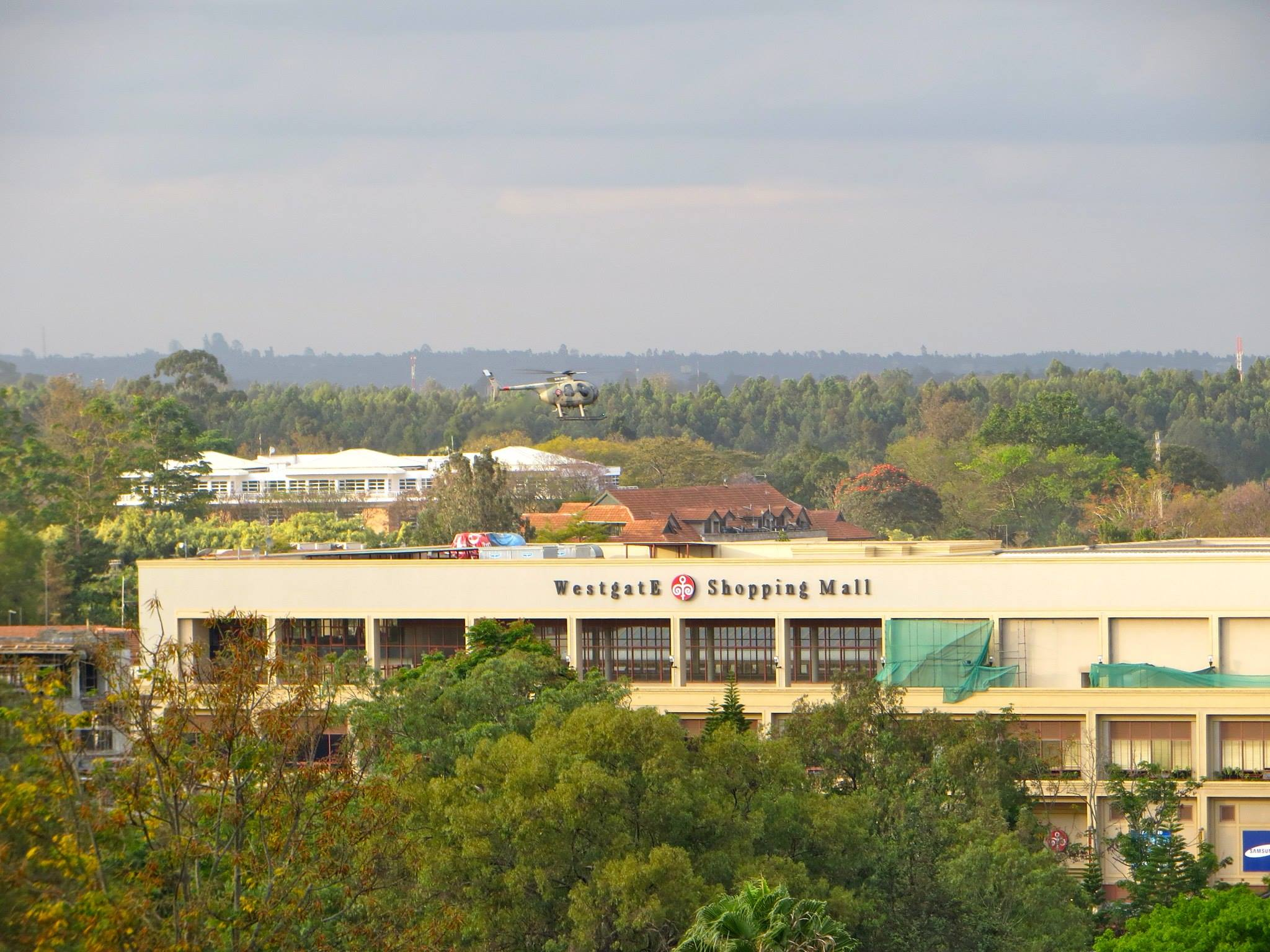 Taken of and around the 2013 Westgate shopping mall terrorist incident in Nairobi, Kenya.